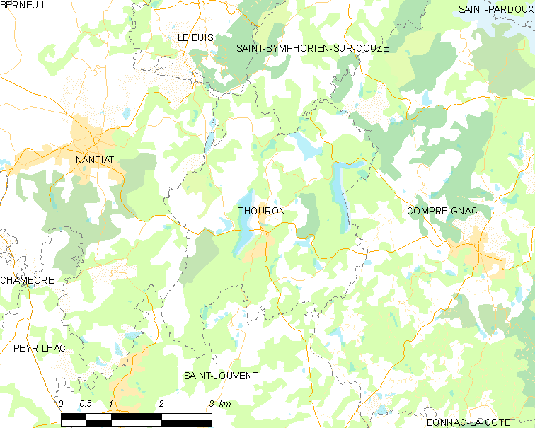 Map of French municipality Thouron